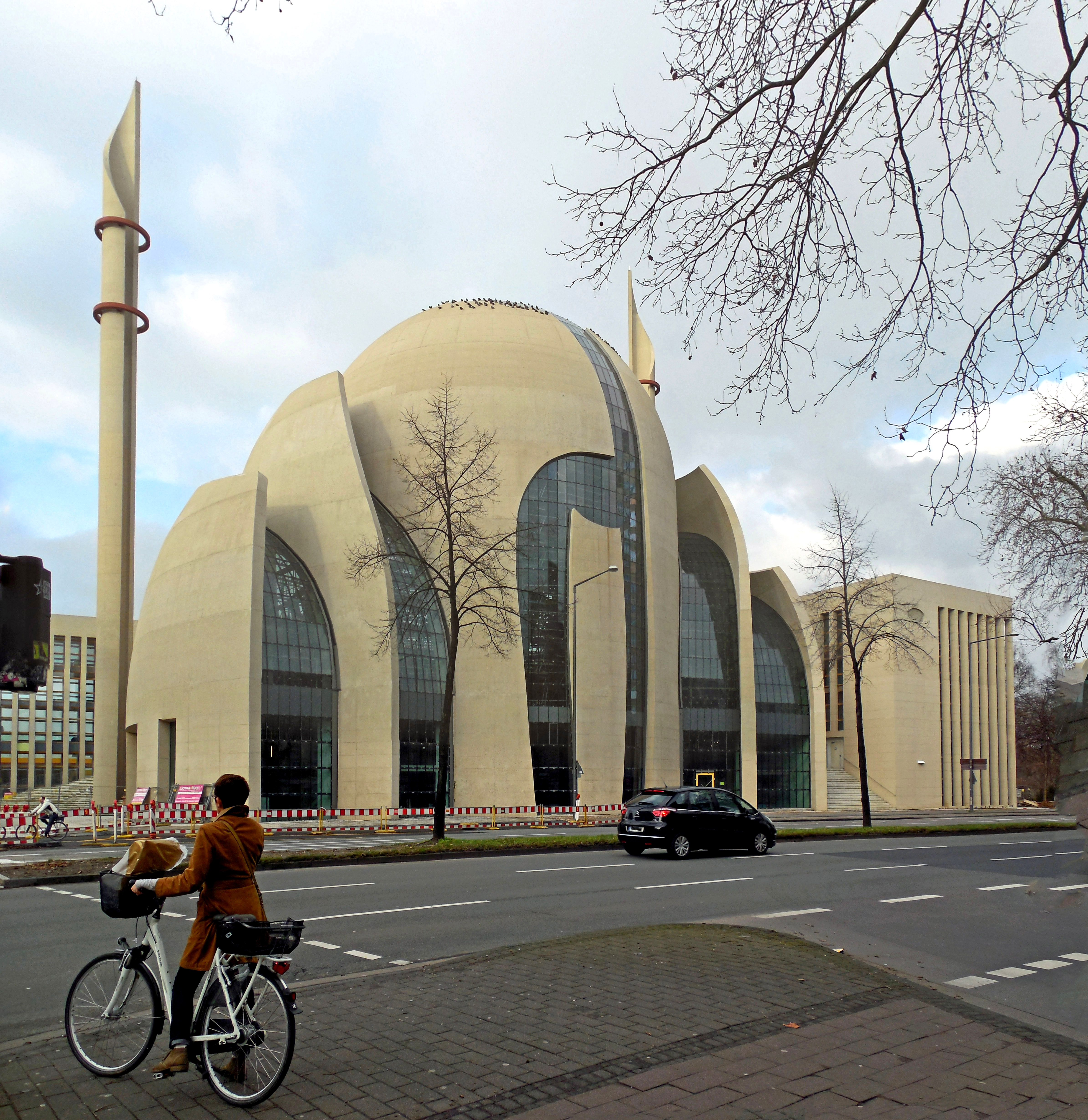 central mosque in Cologne, Germany